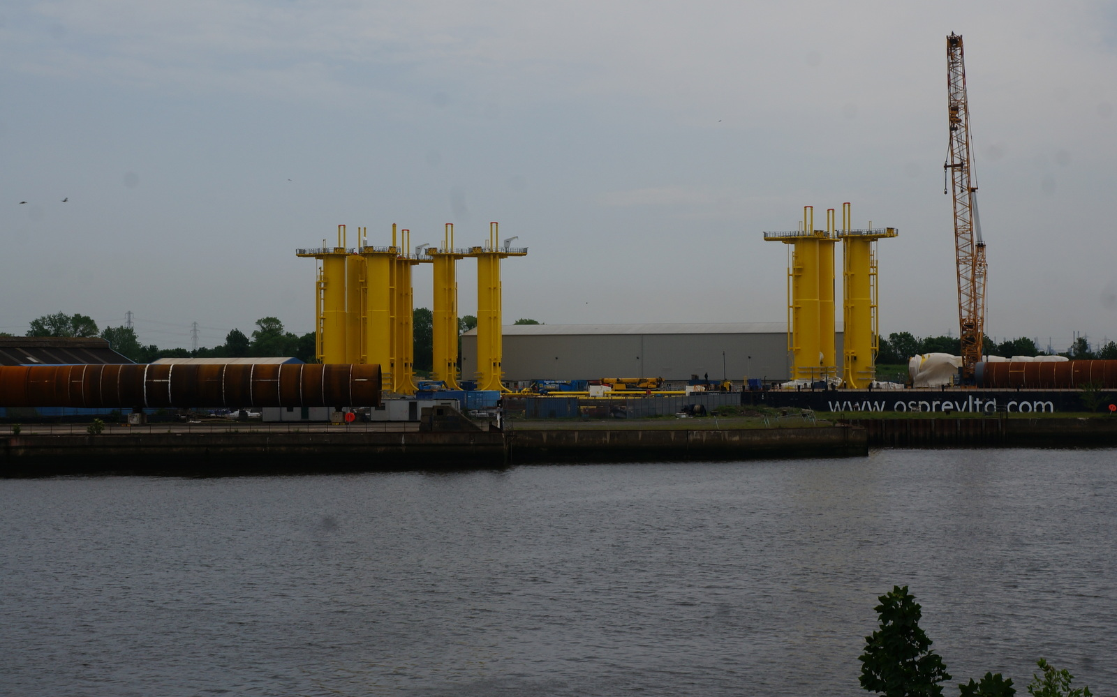 Wind Turbine Factory on the banks of the Tees